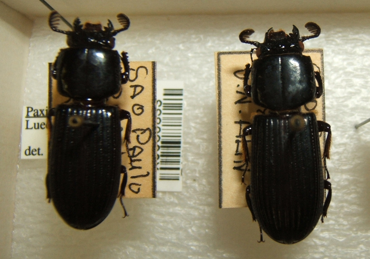 Paxillus pentataphylloides adult taken by Shawn Hanrahan at the Texas A&M University Insect Collection in College Station, Texas.